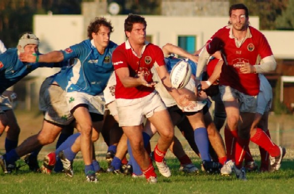 PSG rugby vs. OCC.